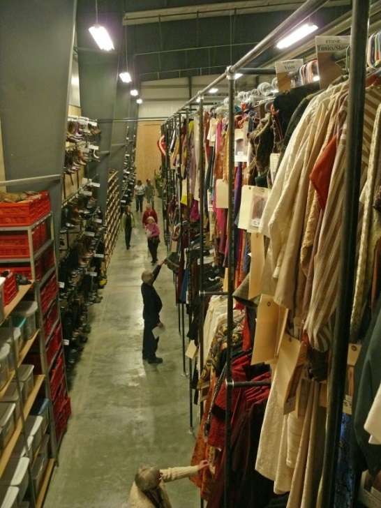 A view of the new production facility of the Oregon Shakespeare Festival in Talent, Oregon.